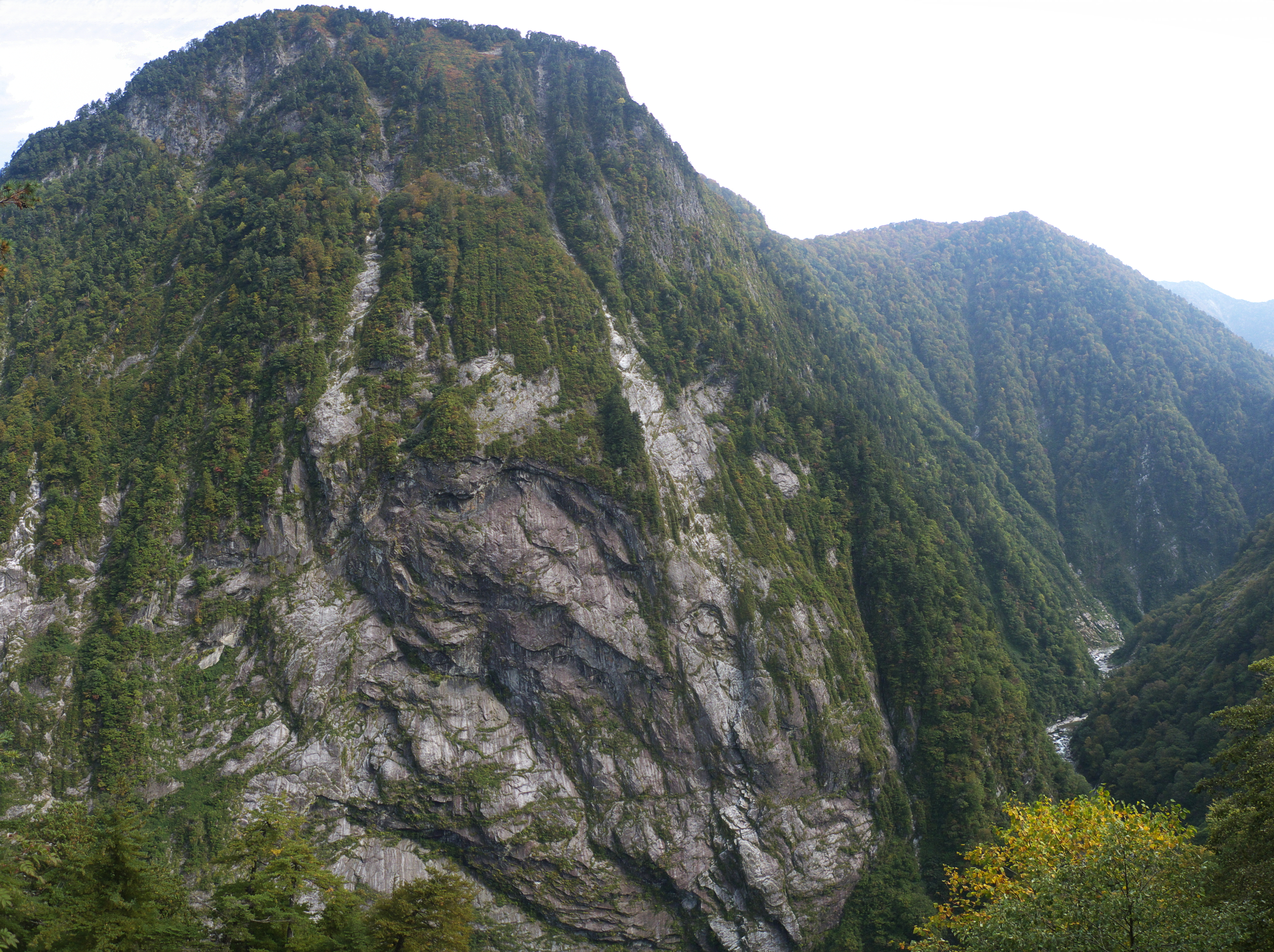 Western wall of Mount Okukane (Okukane-yama), facing the Kurobe Gorge, seen from the Suihei Hodo trail